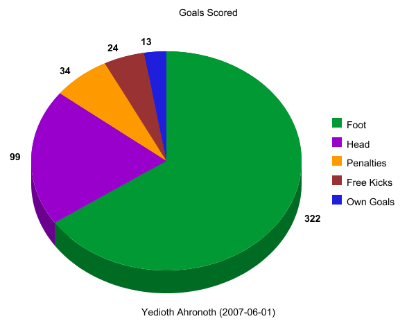 Goals scored during the Ligat ha'Al 2006/07 season. "חלוקי שערי הליגה", Yedioth Ahronoth 24529 (Sport): 7, 2007-06-01 .